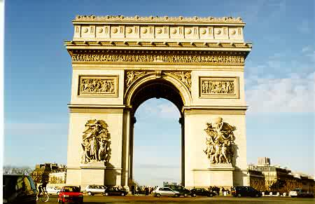 Simple front-on view of the Arc de Triomphe.Picture taken from the East looking West, in the morning.